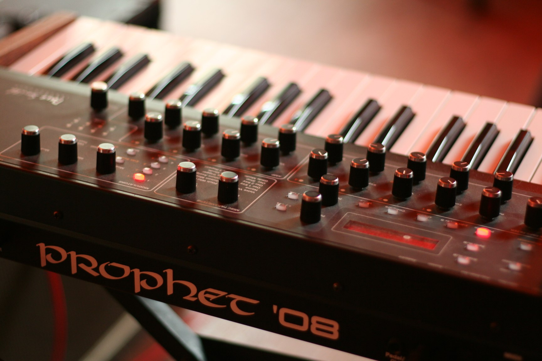 Another of the vintage synthesizers used by the band at the German BigBrotherAwards ceremony 2014. It is a digitally controlled analogue synthesizer.